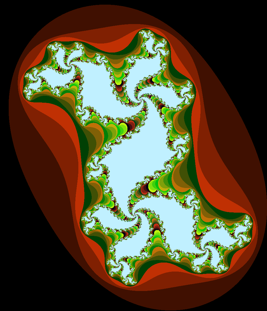 Julia set fc(z) = z^2+c where c = 0.3+0.5i. C is inside period 4 component of Mandelbrot set.